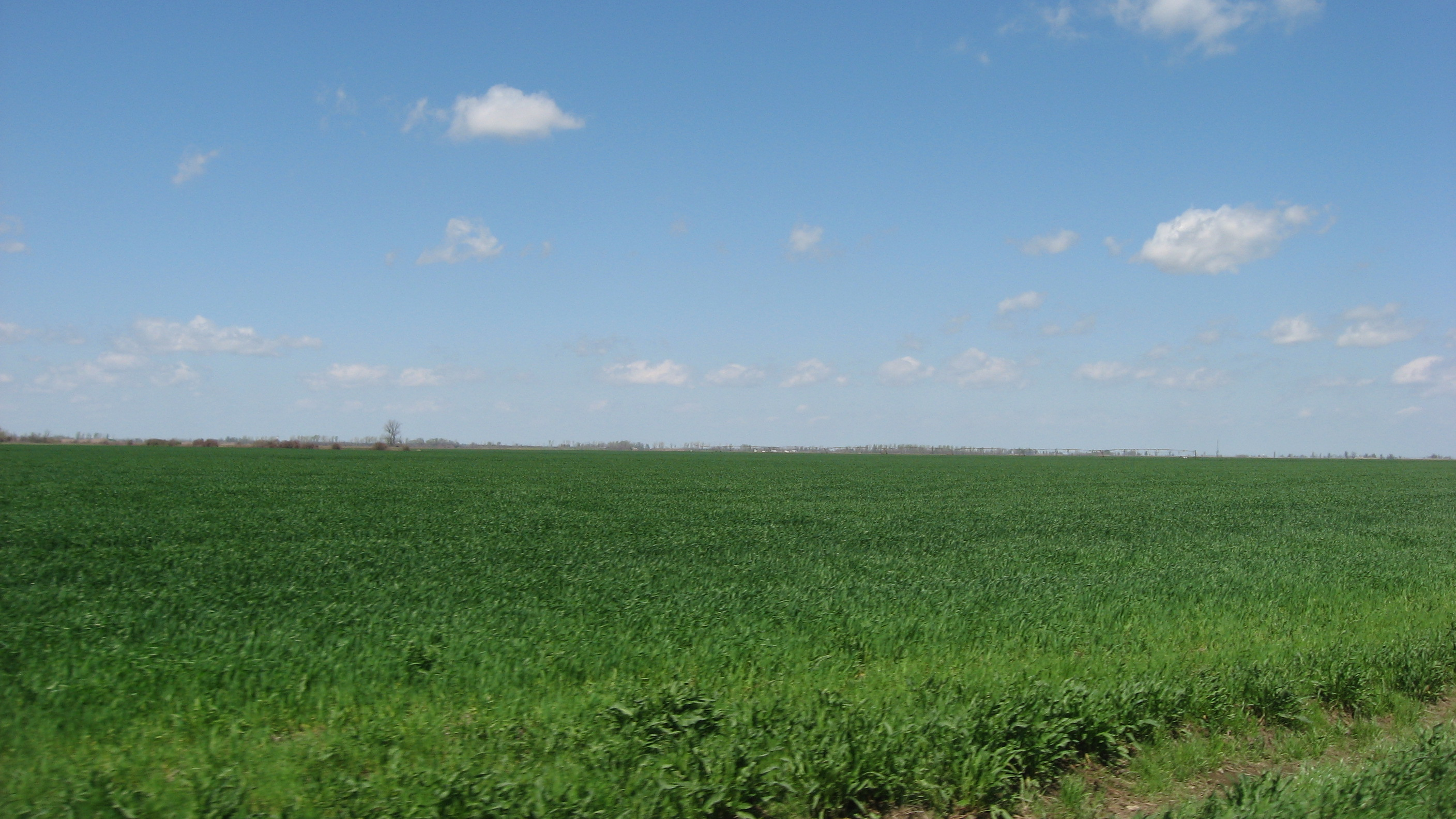 Fields on the western side of Route E east of Cooter in Pemiscot Township, Pemiscot County, Missouri, United States. This is a scene typical of the Mississippi River floodplain in the Bootheel.